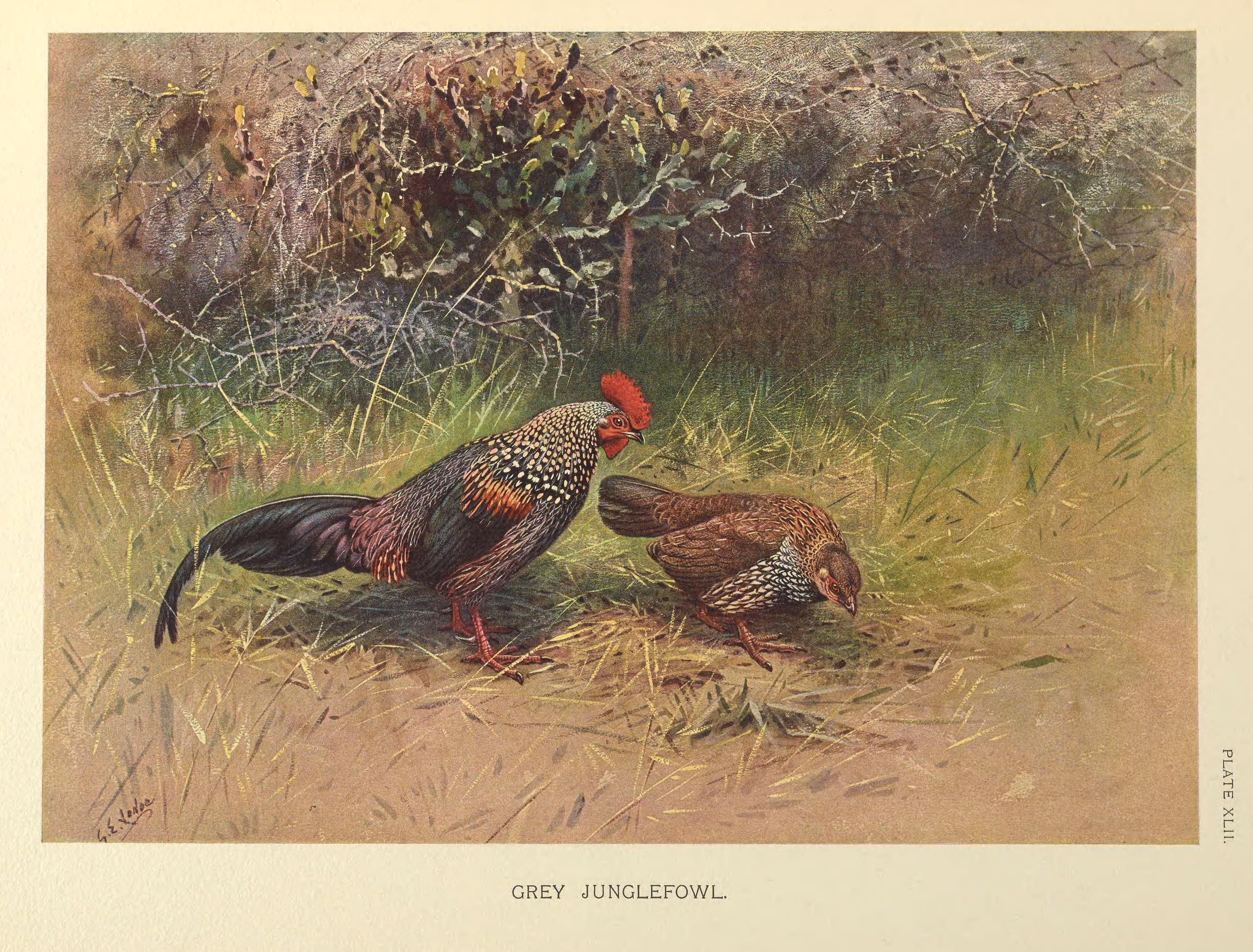 Grey Junglefowl (Gallus sonneratii)